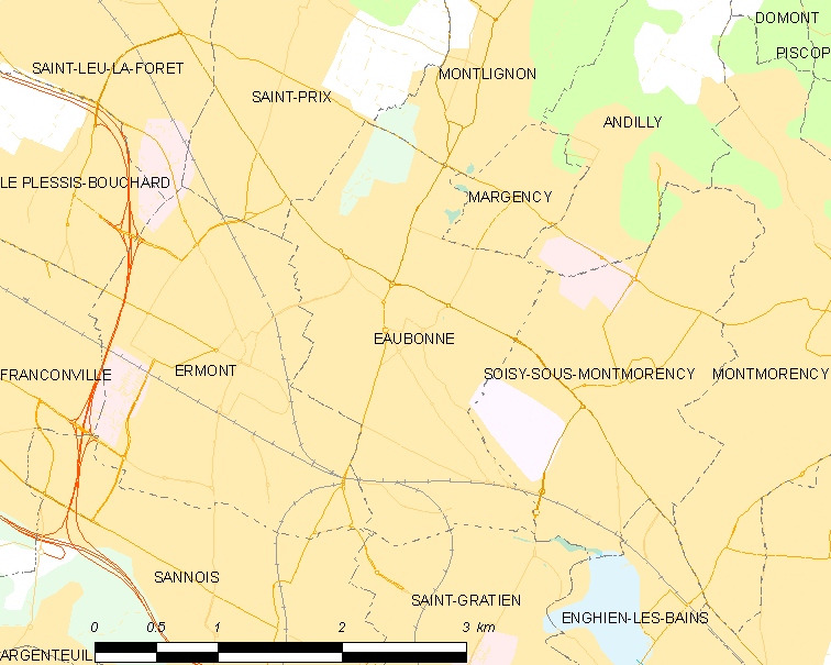 Map of French municipality Eaubonne